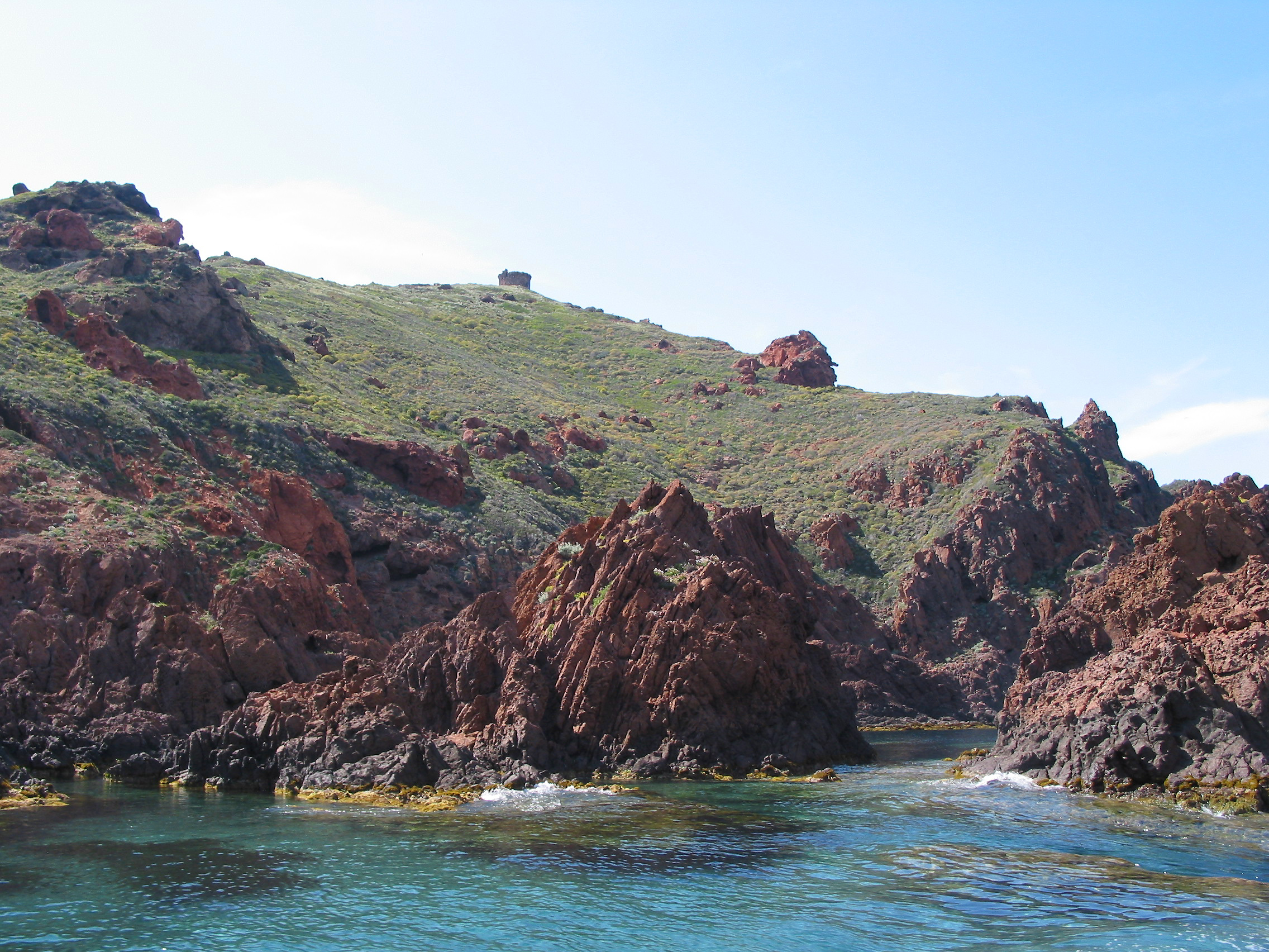 Osani (Corse-du-Sud) - France, Scandola Nature Reserve - Genovese tower of the Gargalo island.